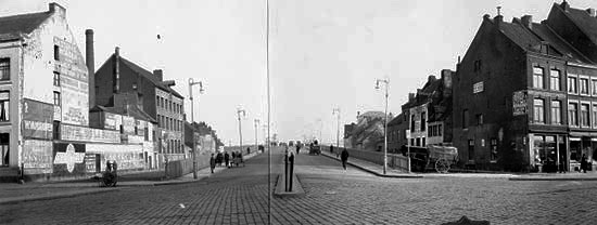 1935: The former Stadhuisstraat in Maastricht, the Netherlands